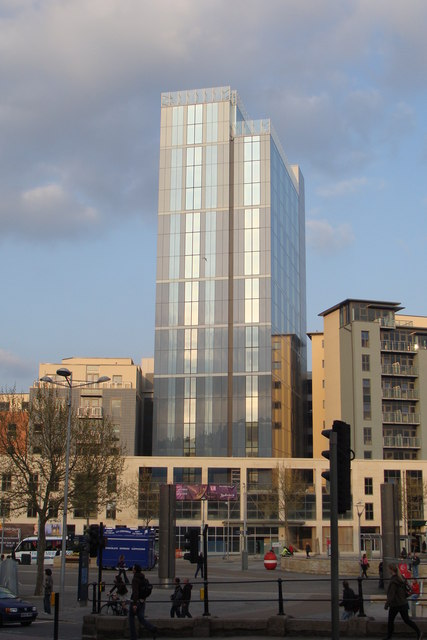 The Radisson SAS Hotel, Bristol This new (2009) building is designed to pick up, and blend in with, the nature of the sky.